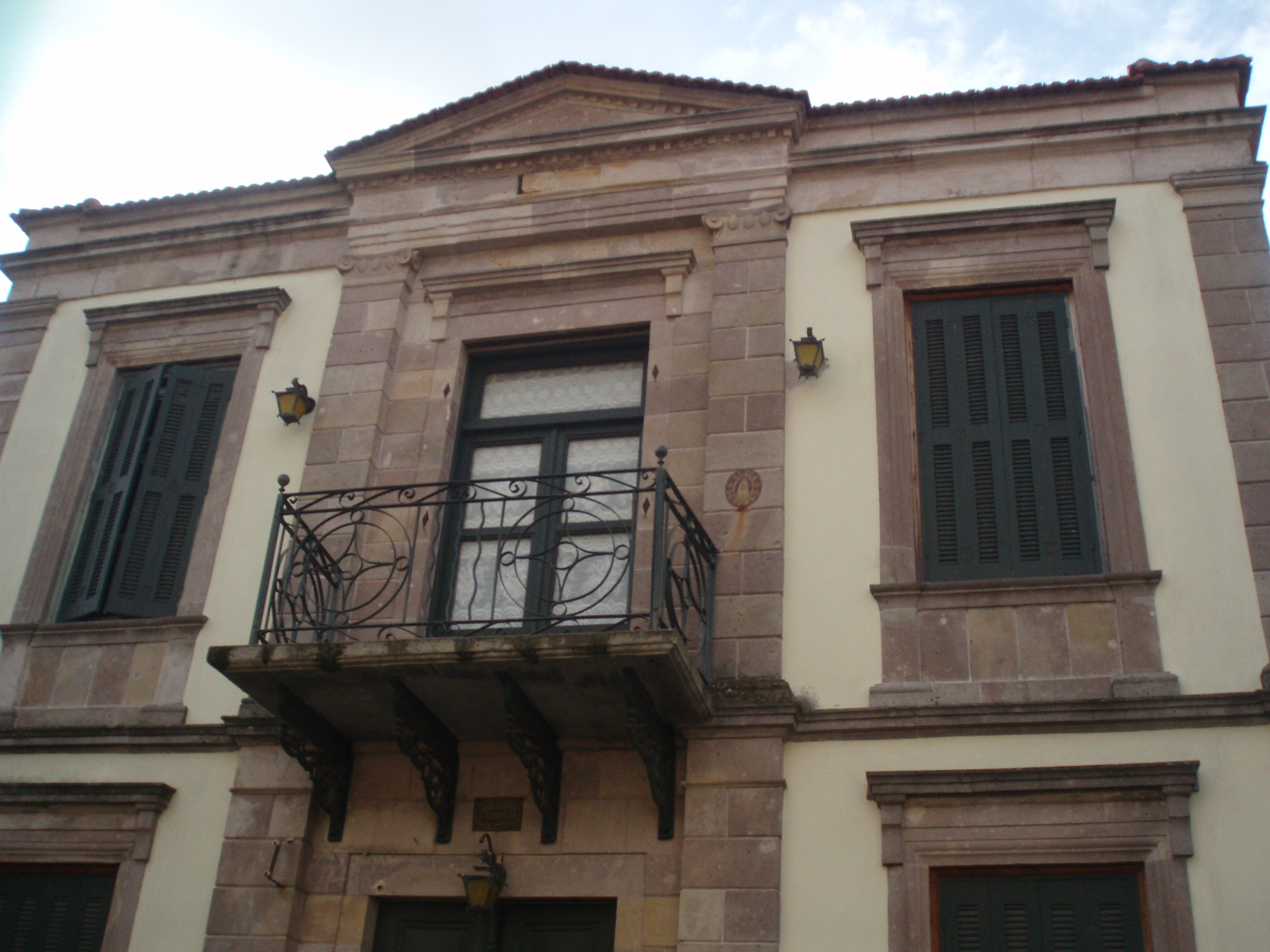 Traditional house in the center of Polichnitos build from local volcanic stone of Lesbos.